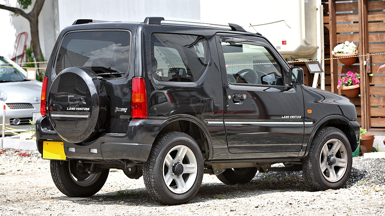 Suzuki Jimny 660 Land Venture ( JB23W )